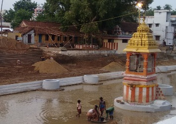 Mayiladuthuraipuskharam மயிலாடுதுறைபுஷ்கரம்